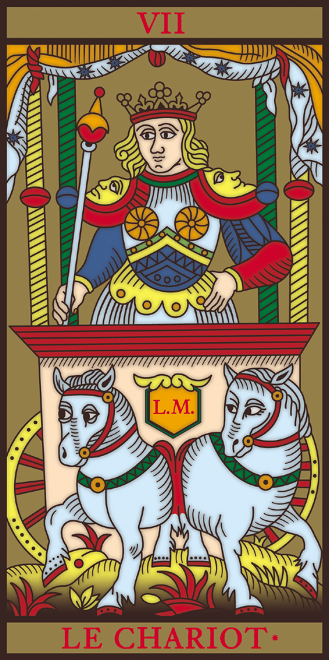 CHARRIOT, Tarot of Marseilles. LeMat Comunicaciones. Spain